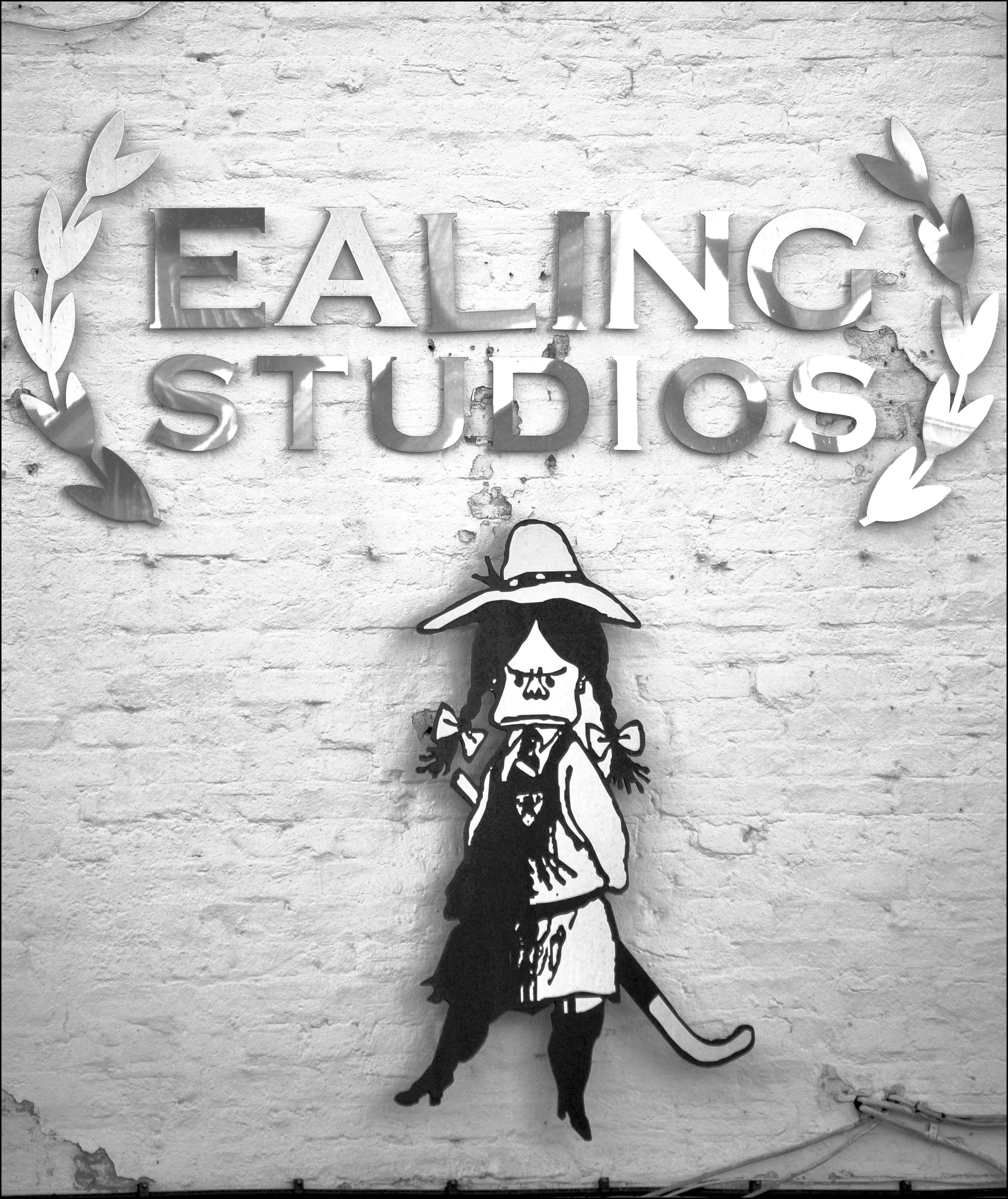 Sign incorporating a St Trinian's schoolgirl by Ronald Searle. Ealing Studios is the oldest continuously working film studio in the world. Starting in 1902, it has produced classics such as The Ladykillers and The Lavender Hill Mob, and more recently a successful revival of the St Trinian's film comedy.There are five soundstages. London Borough of Ealing. ( CC-by-SA which means anyone can freely use any size of this image anywhere, provided accompanied by the credit: Image: George Rex.)